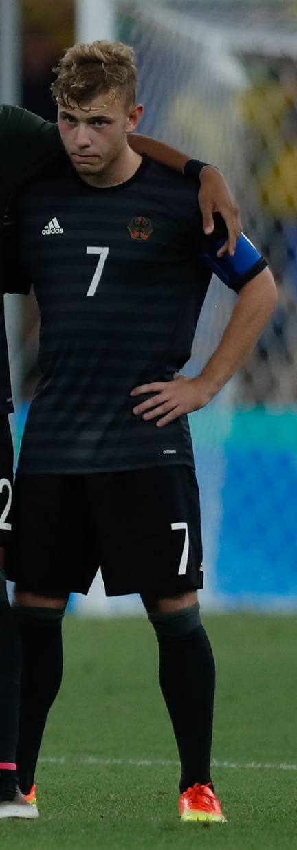 Rio de Janeiro - Brasil vence Alemanha e conquista primeiro ouro olímpico do futebol (Fernando Frazão/Agência Brasil)